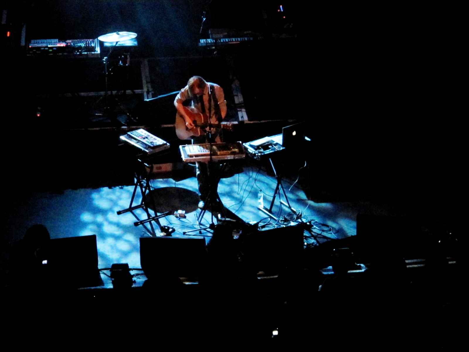 James Yuill onstage @ Shepherd's Bush Empire